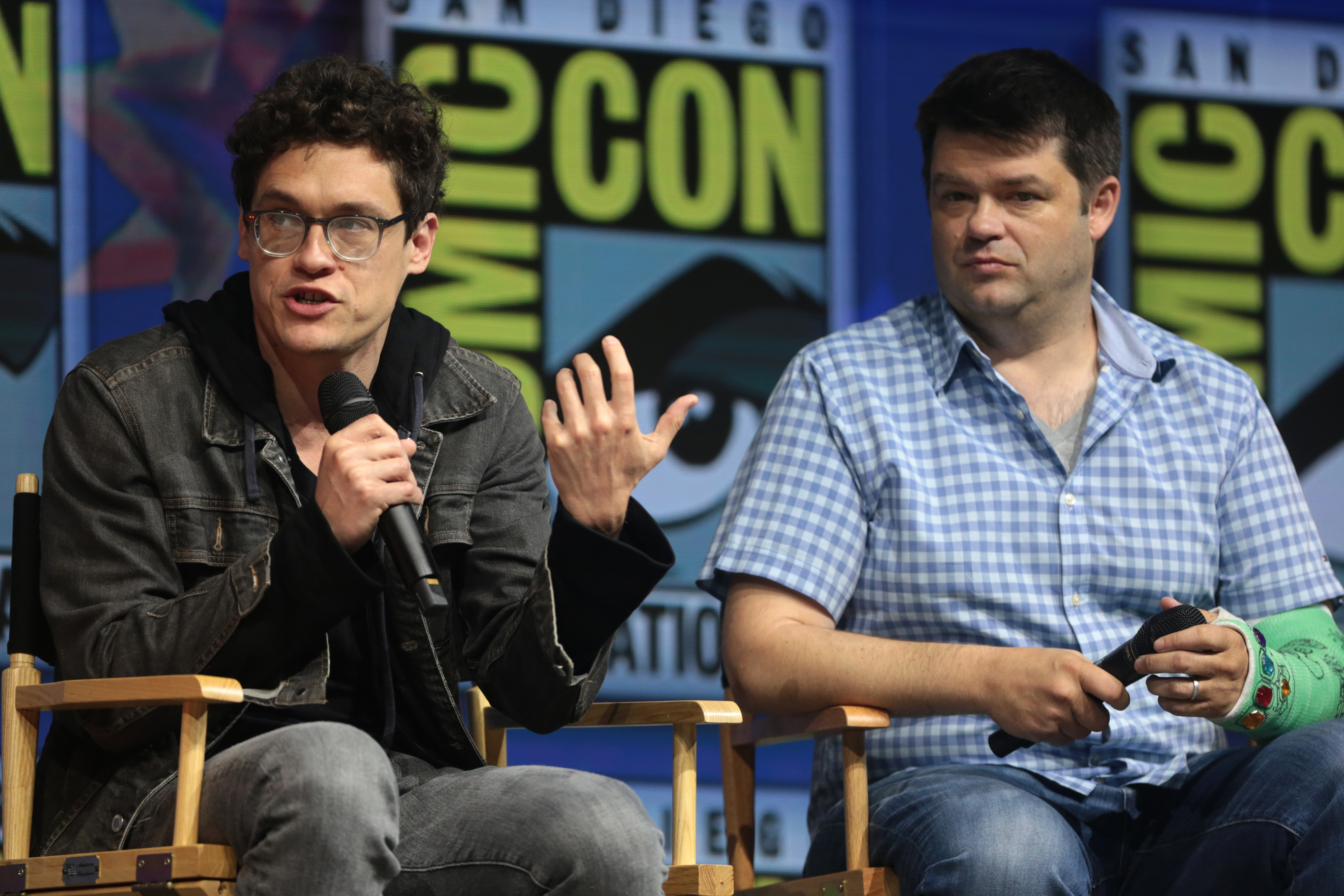 Phil Lord and Christopher Miller speaking at the 2018 San Diego Comic-Con International in San Diego, California.